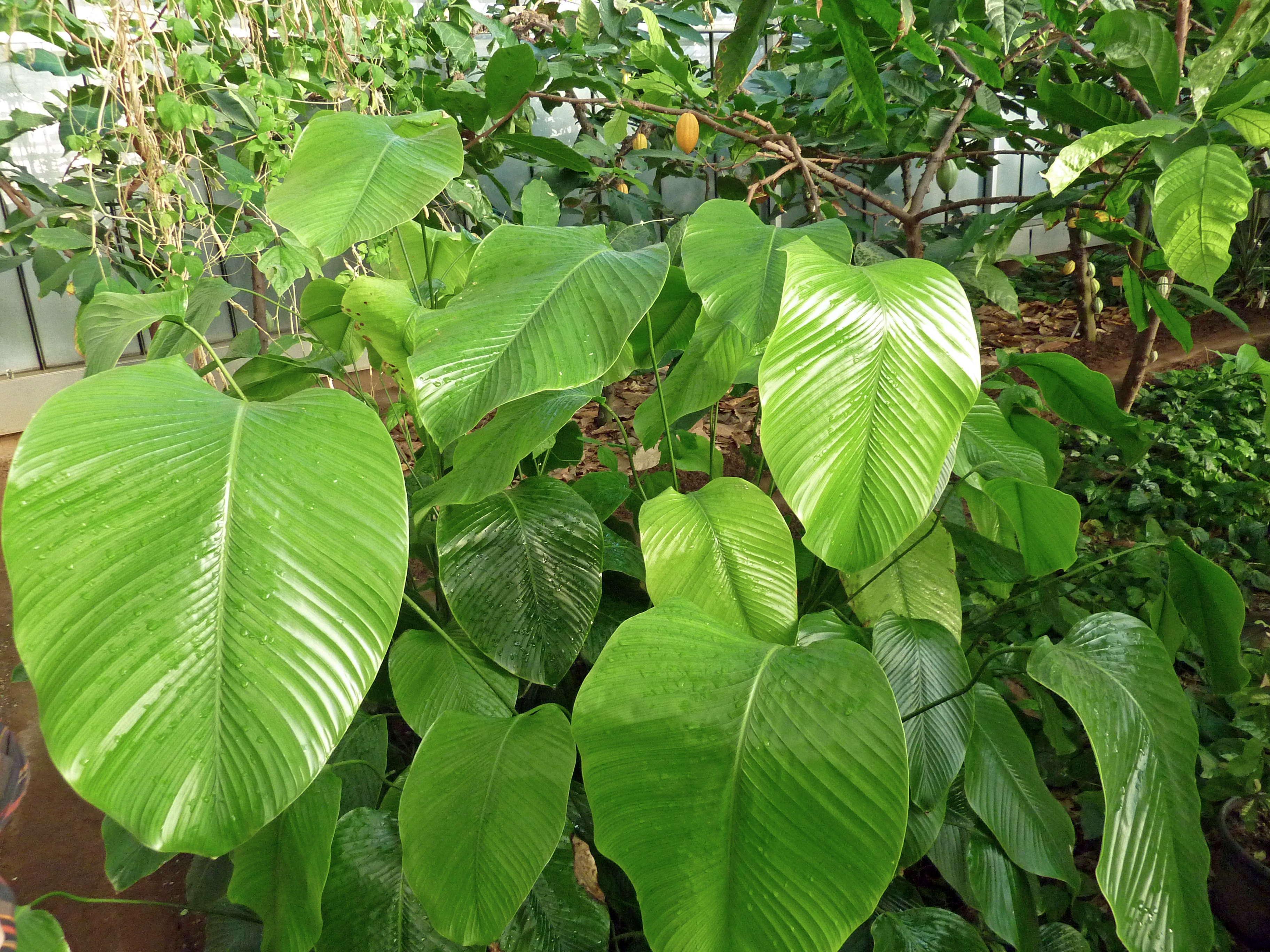 Thaumatococcus daniellii growing in the greenhouse of the Deutsches Institut für tropische und subtropische Landwirtschaft, Witzenhausen, Germany